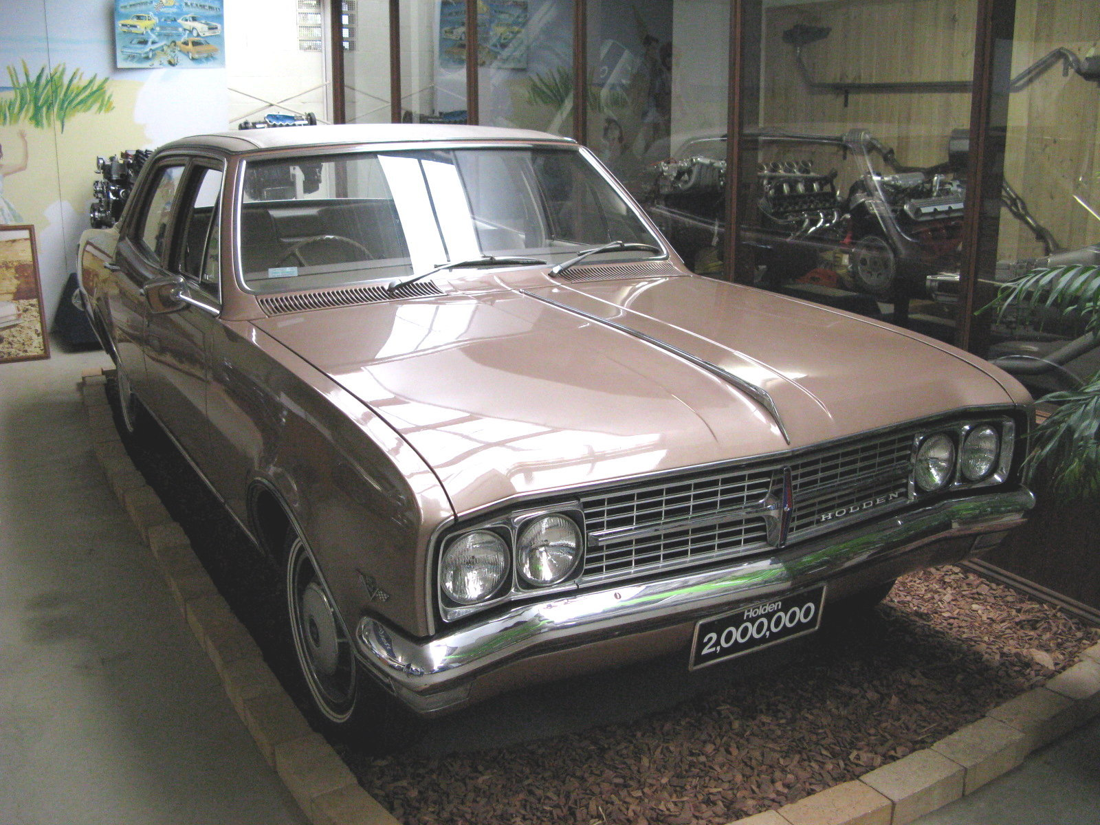 1968-1969 Holden HK Brougham